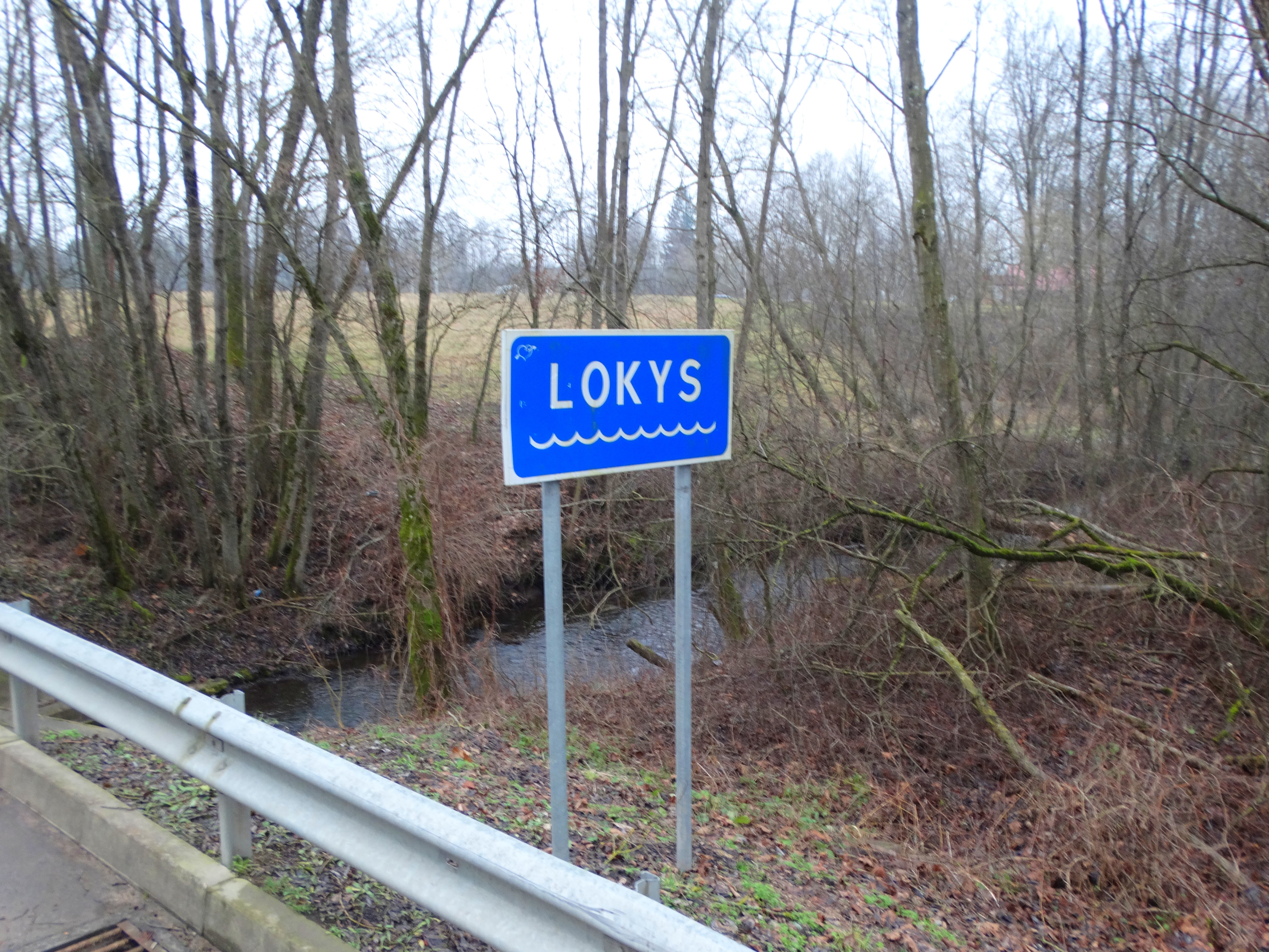 Lokys, Jonava District, Lithuania